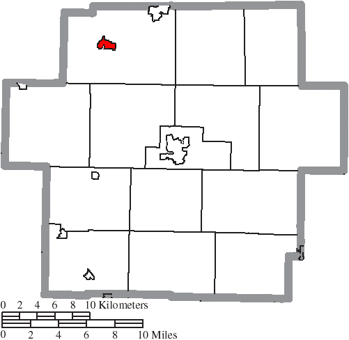 Map of the municipal and township boundaries of Carroll County, Ohio, United States, as of the 2000 census, with the location of the village of Malvern highlighted. Township borders are shown only in unincorporated areas in order to differentiate incorporated and unincorporated areas more clearly.